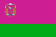 Flag of Lozivskyj district (Ukraine)